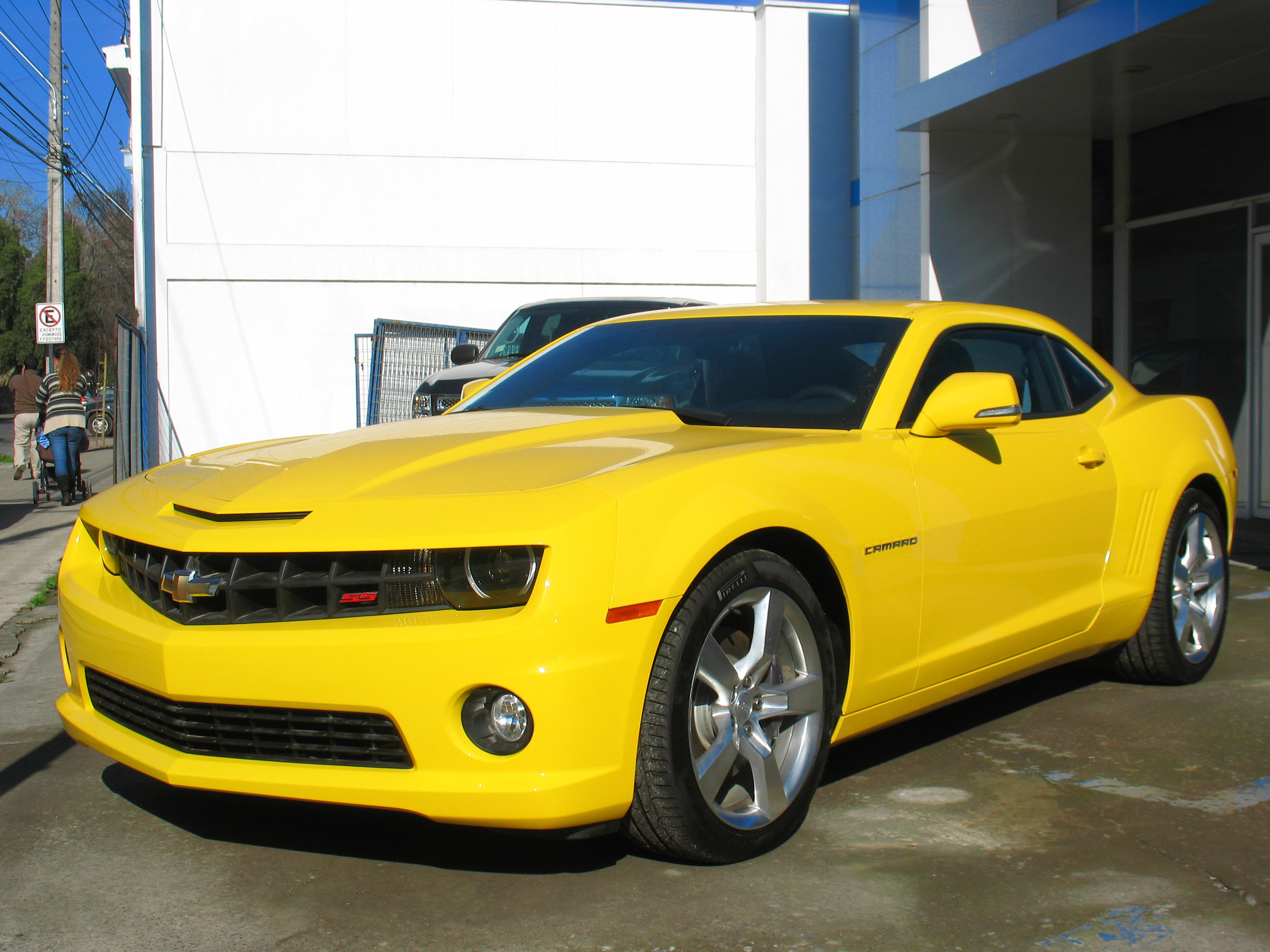 Chevrolet Camaro SS 2012